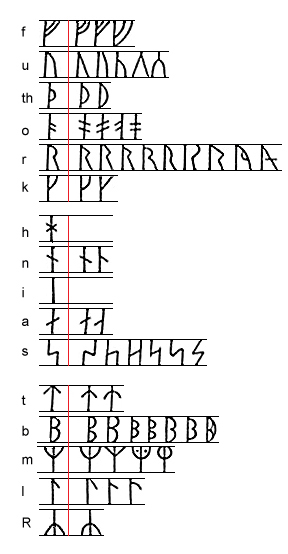 overview of graphical variants of the Younger Futhark letters found on Swedish runestones. runsten klafui